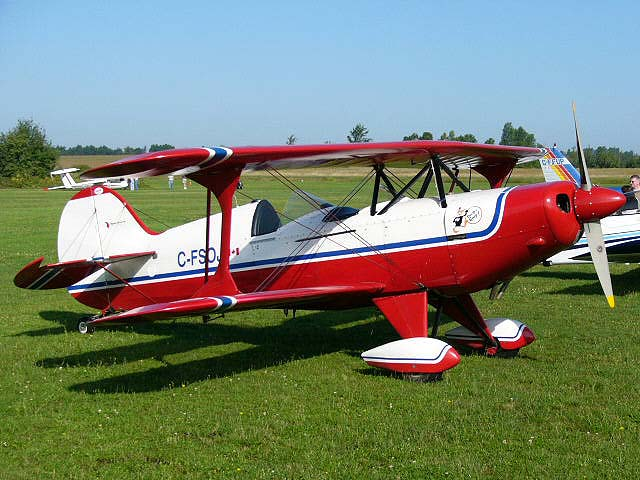 A Steen Skybolt at the Alexandria Ontario fly-in